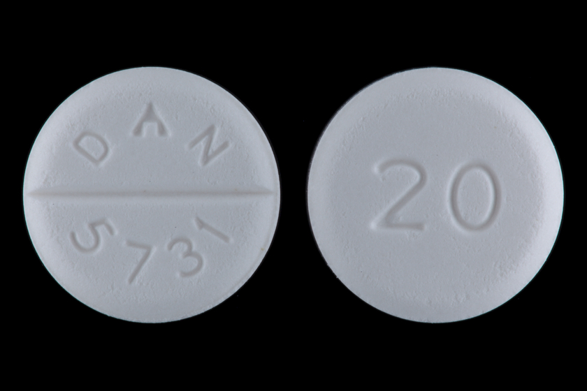 Drug Name: Baclofen 20 MG Oral Tablet Ingredient(s): Baclofen Imprint: DAN;5731 Color(s): White Shape: Round Size (mm): 10.00 Score: 2 Inactive Ingredient(s): ShowHide magnesium stearate / microcrystalline cellulose / ... magnesium stearate / microcrystalline cellulose / povidone / corn starch Drug Label Author: Watson Laboratories, Inc. DEA Schedule: Non-Scheduled